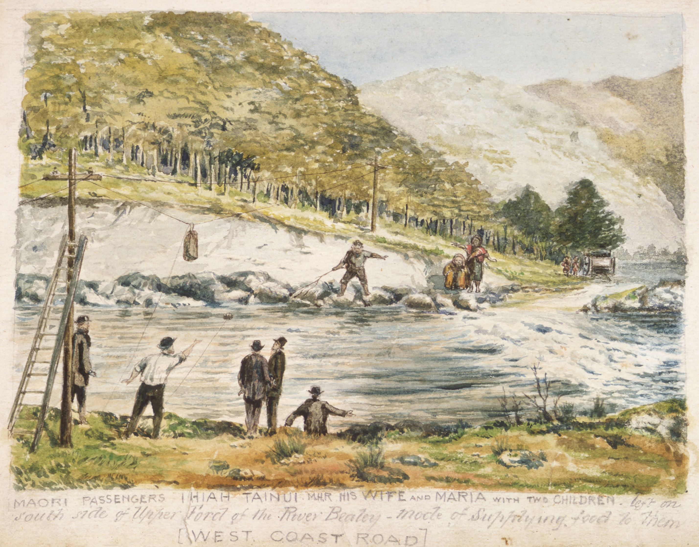 Five men on the near bank of the River Bealey with a ladder propped against a telegraph pole. They are sending a parcel of food across the river via the telegraph wires to M. P. Ihaiah Tainui on the other side. Also on the other side are a woman, presumably Mrs Tainui, with a babe-in-arms and a child. In the distance to the right is a stranded coach. Ihaiah Tainui was Member of the House of Representatives for Southern Maori, 1879-1880.